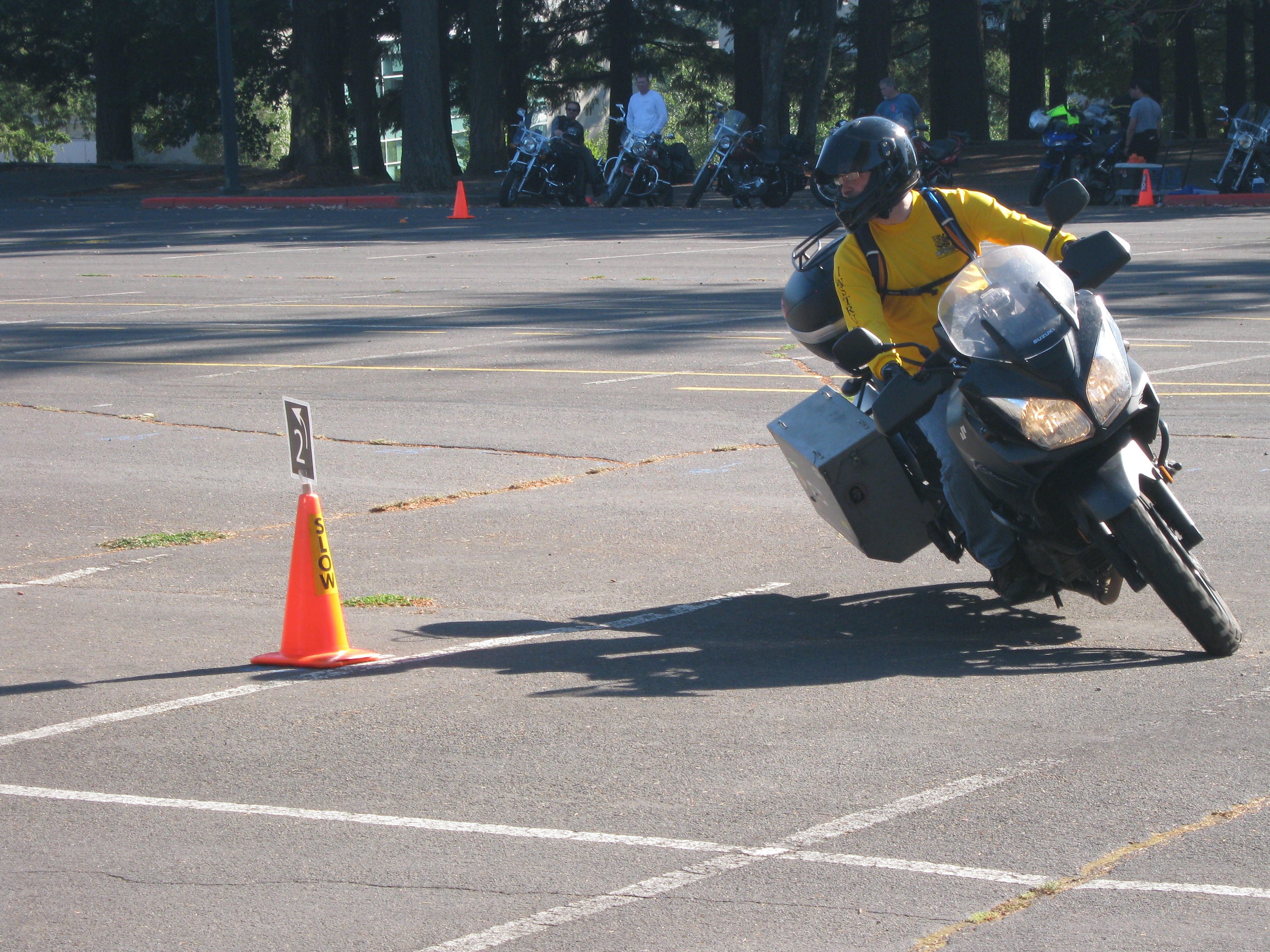 Team Oregon experienced riding class (RSP) at Portland Community College's Sylvania Campus in Portland, Oregon.